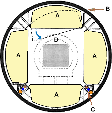 NASA 1985 Crew Station Review No.2 sketch depicting key architectural features for the four standoff concept